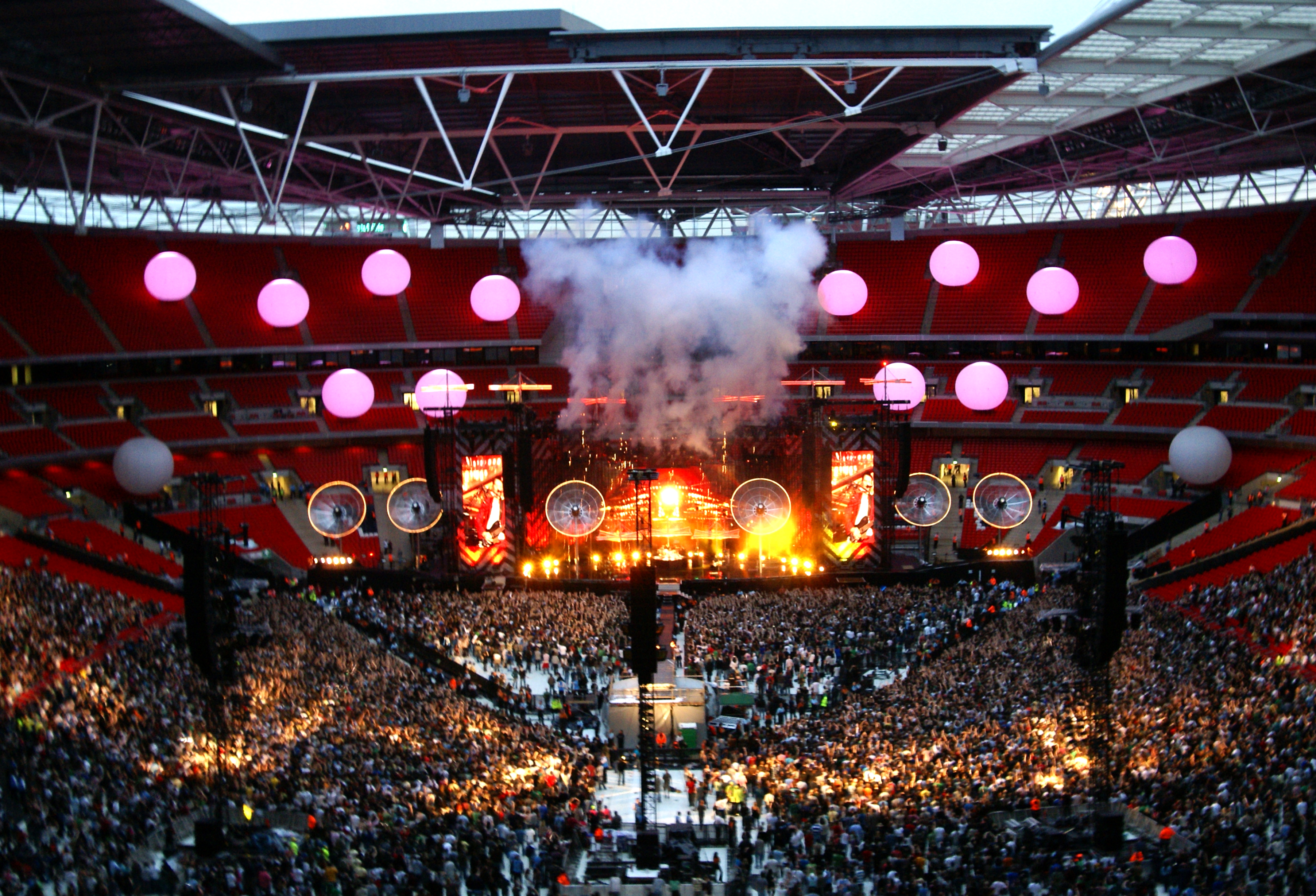 Muse stage at the Wembley Stadium